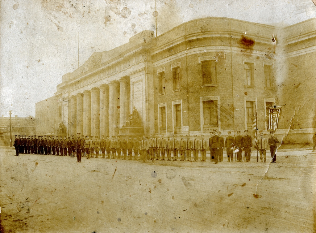 1908 photo of the Soldiers and Sailors Memorial Coliseum in Evansville , Indiana